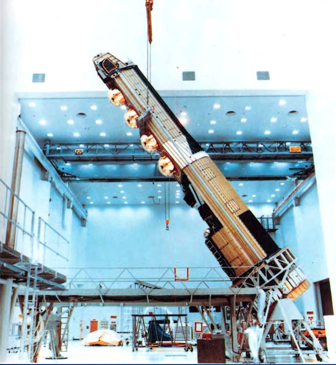 KH-9 Hexagon satellite vehicle assembly going vertical